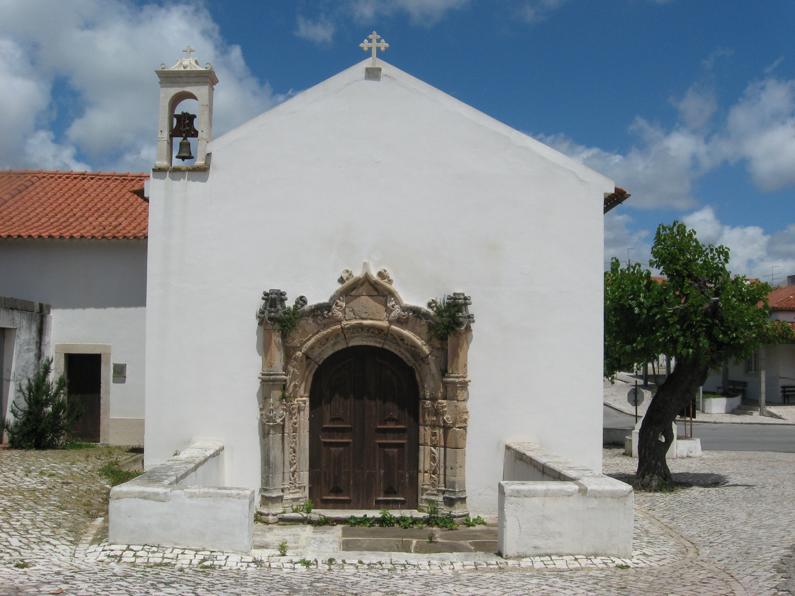 Alcobaça, Mosteiro, Portugal, Coutos of Alcobaça, former county ot the mosteiro, one of the 13 cities of the Coutos: Évora de Alcobaç; Church of Misericórdia, 15.th/16th. century, Manueline portal